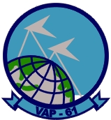 U.S. Navy Heavy Photographic Squadron 61 Insignia